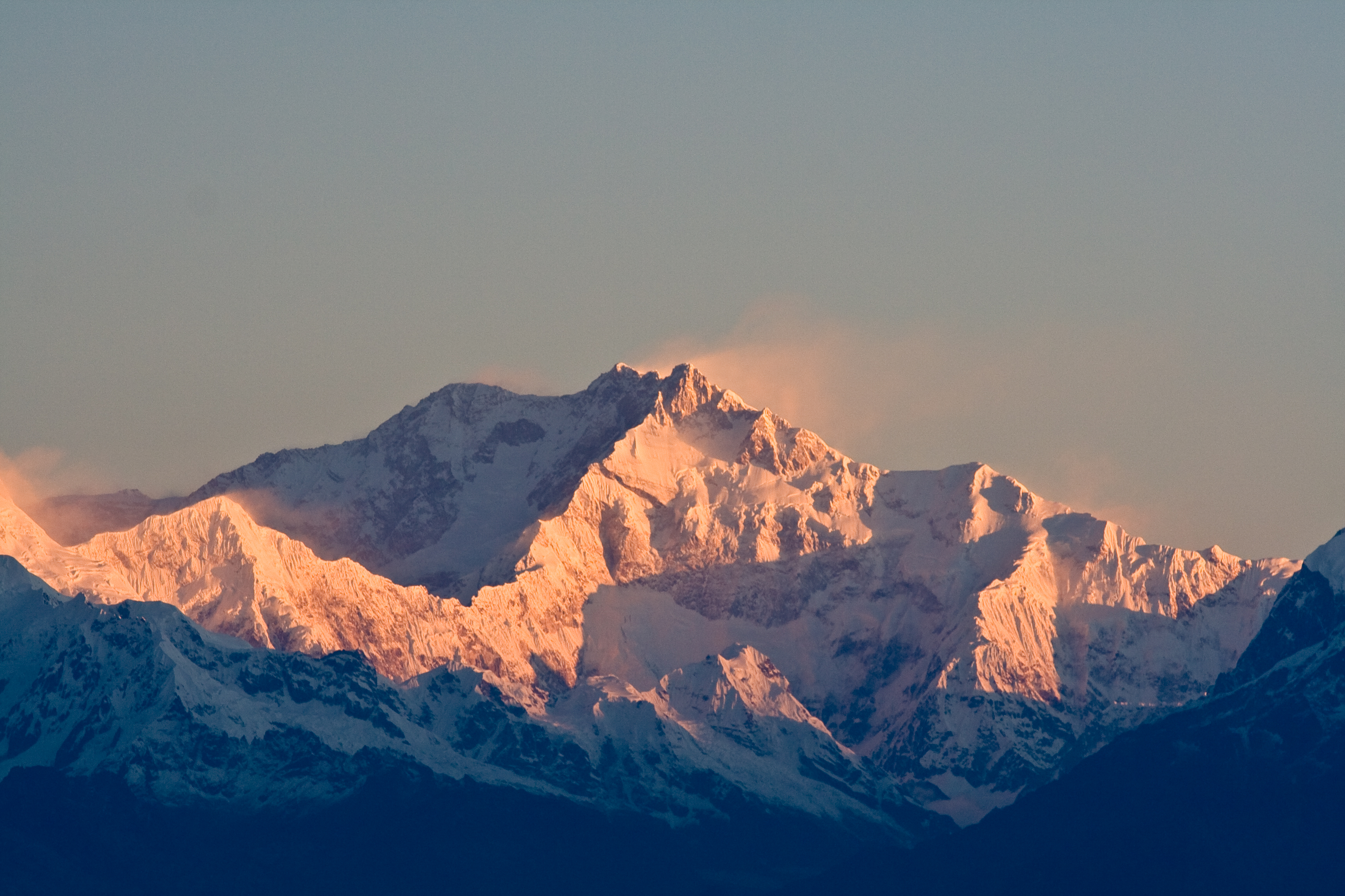 Morning sunlight hits the summit of Kangchenjunga in the Indian Himalayas. This shot was taken from a popular scenic spot outside Darjeeling in West Bengal.